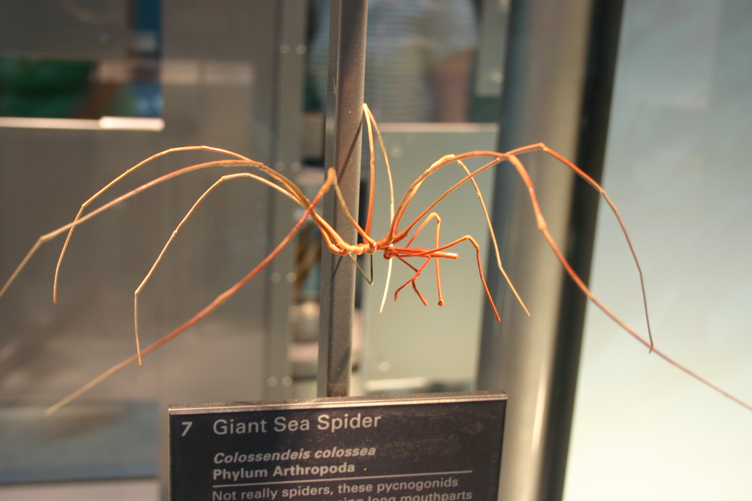 Giant Sea Spider Colossendeis colossea, Smithsonian Natural History Museum: The Sant Ocean Hall.